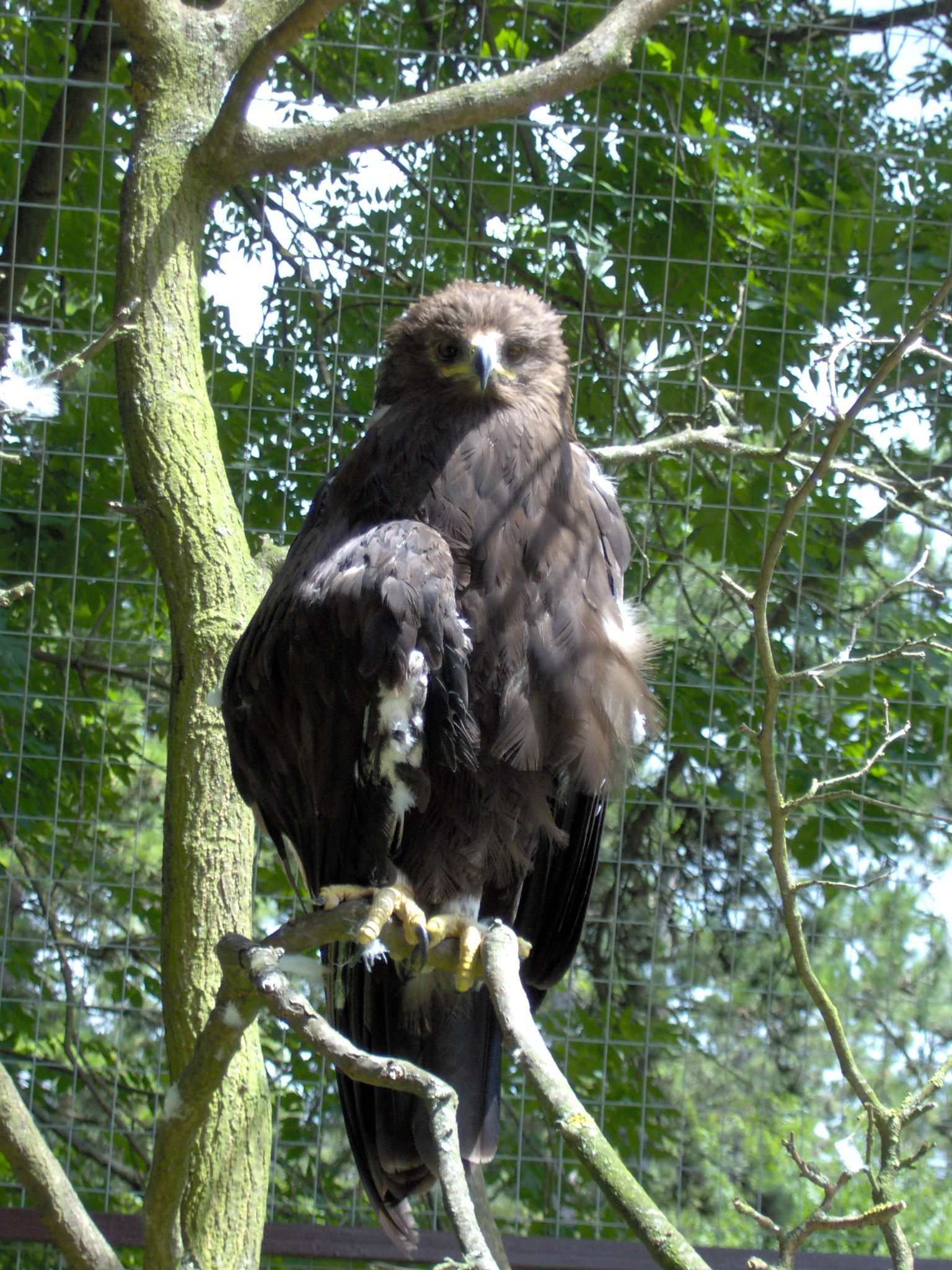 Aquila heliaca in Veszprém Zoo. Made by myself, User:Mathae in the summer of 2005.